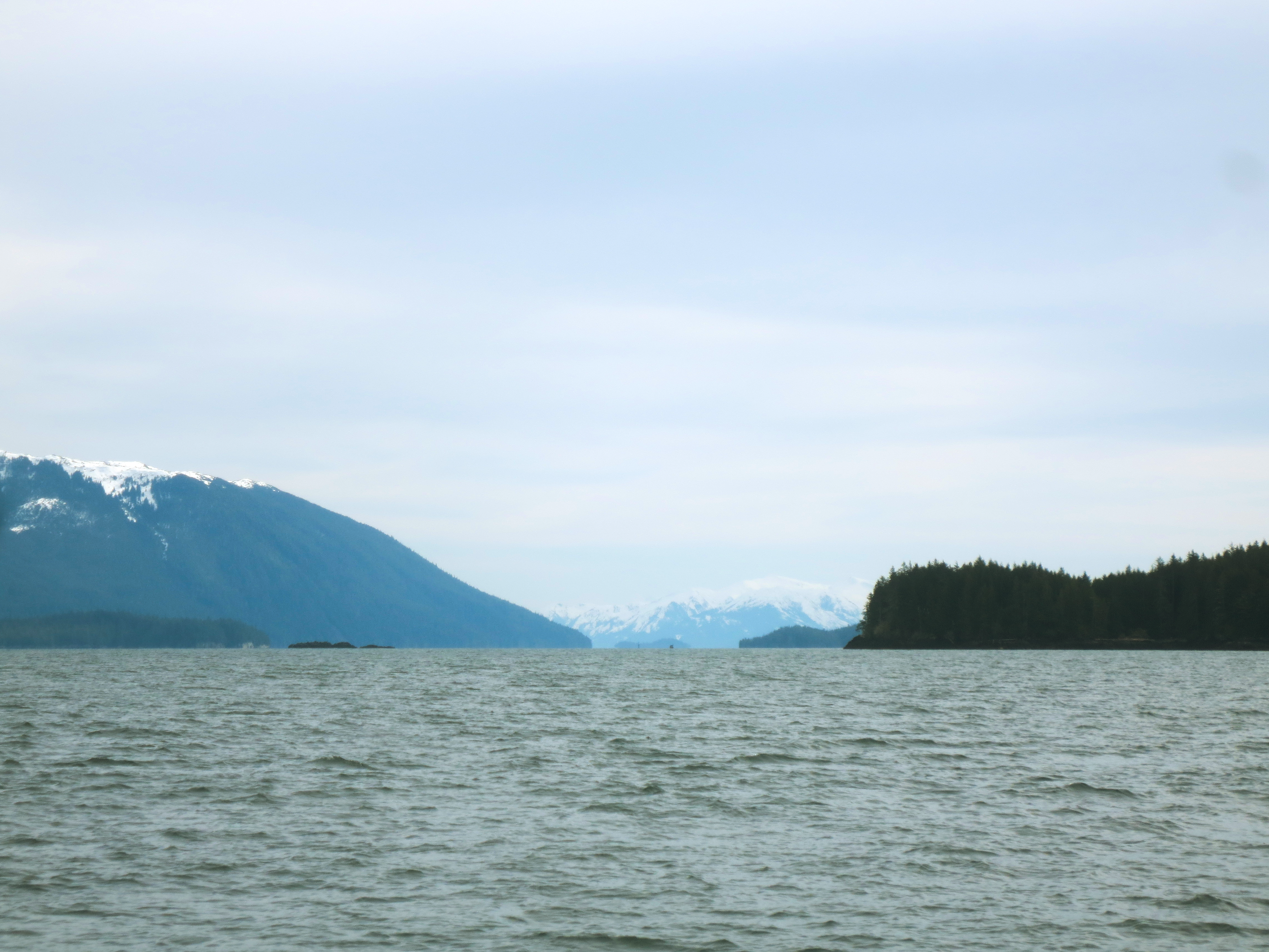 Looking southward down Arthur Passage, British Columbia, Canada from near the Lawyer Islands. Kennedy Island is to the left, Porcher Island is to the right.